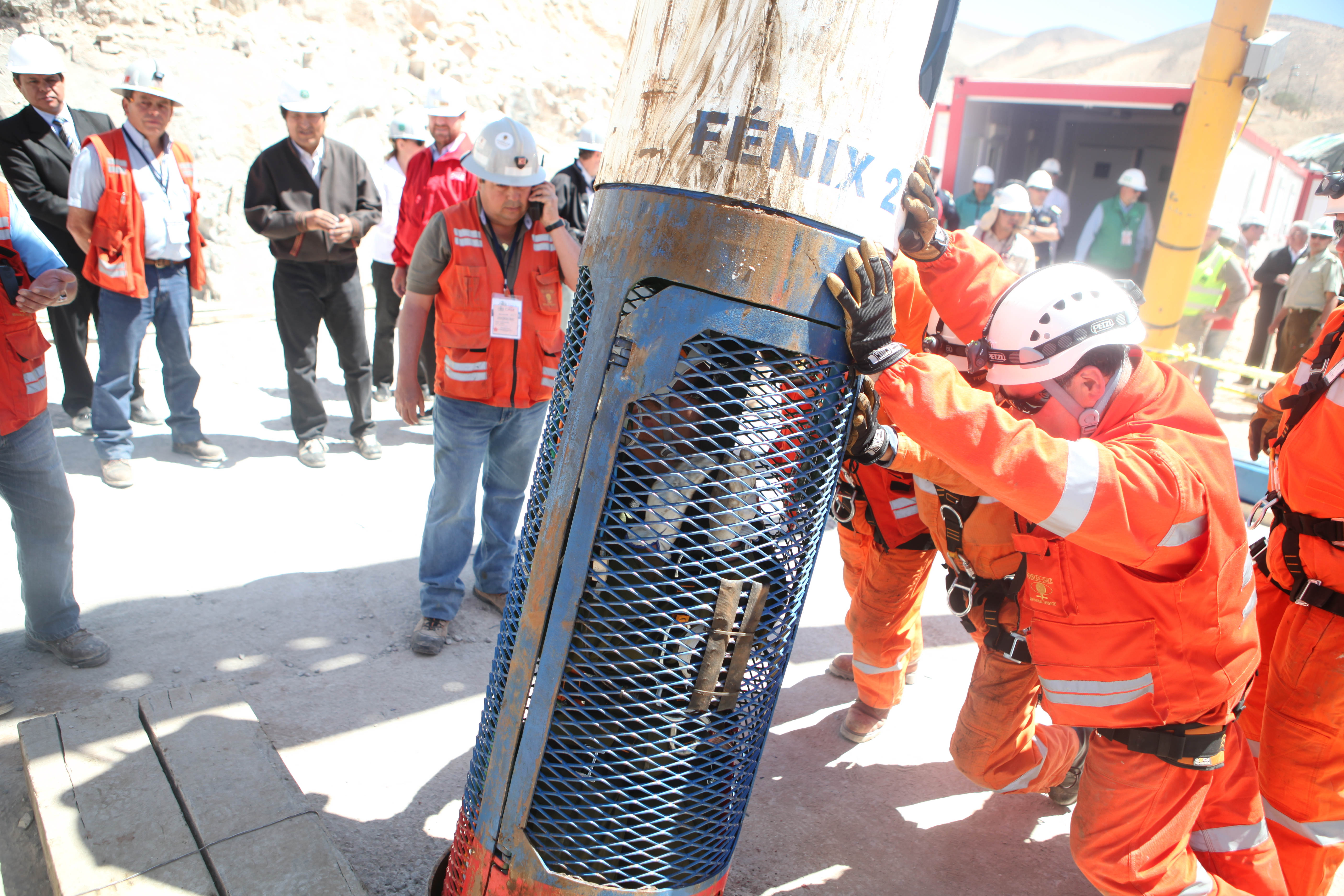 The fifth rescuer, Patricio Sepúlveda, is in the rescue capsule and is being lowered into the San Jose Mine near Copiapo, Chile.